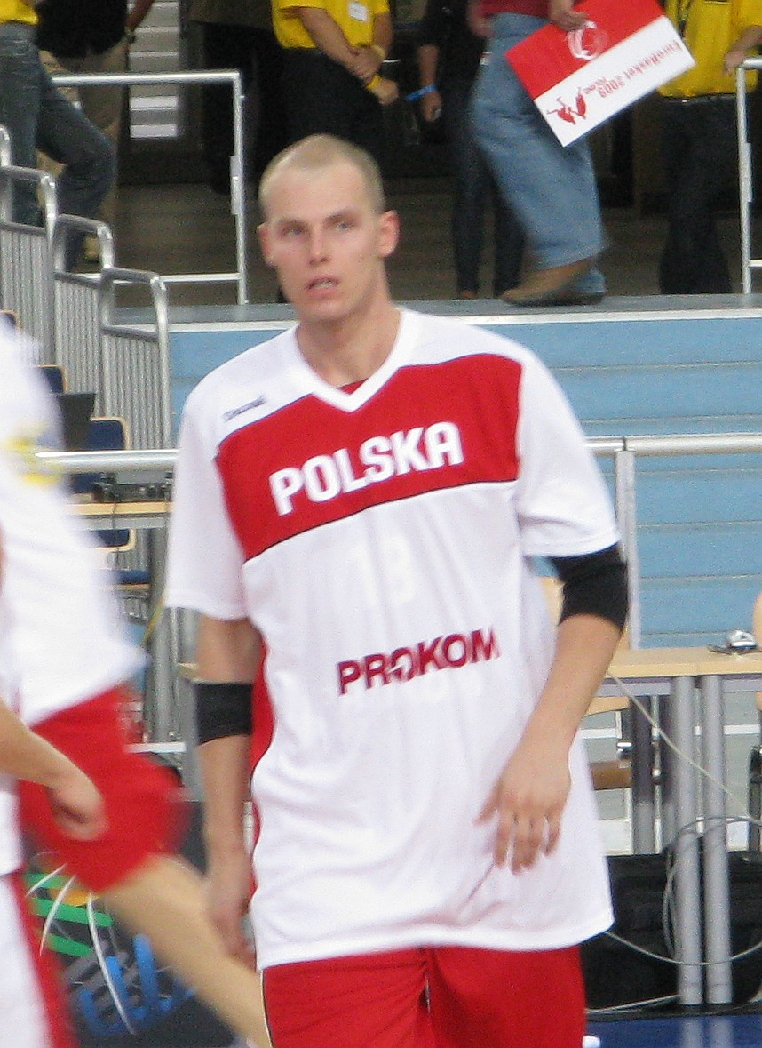 Maciej Lampe at friendly match Poland-Croatia